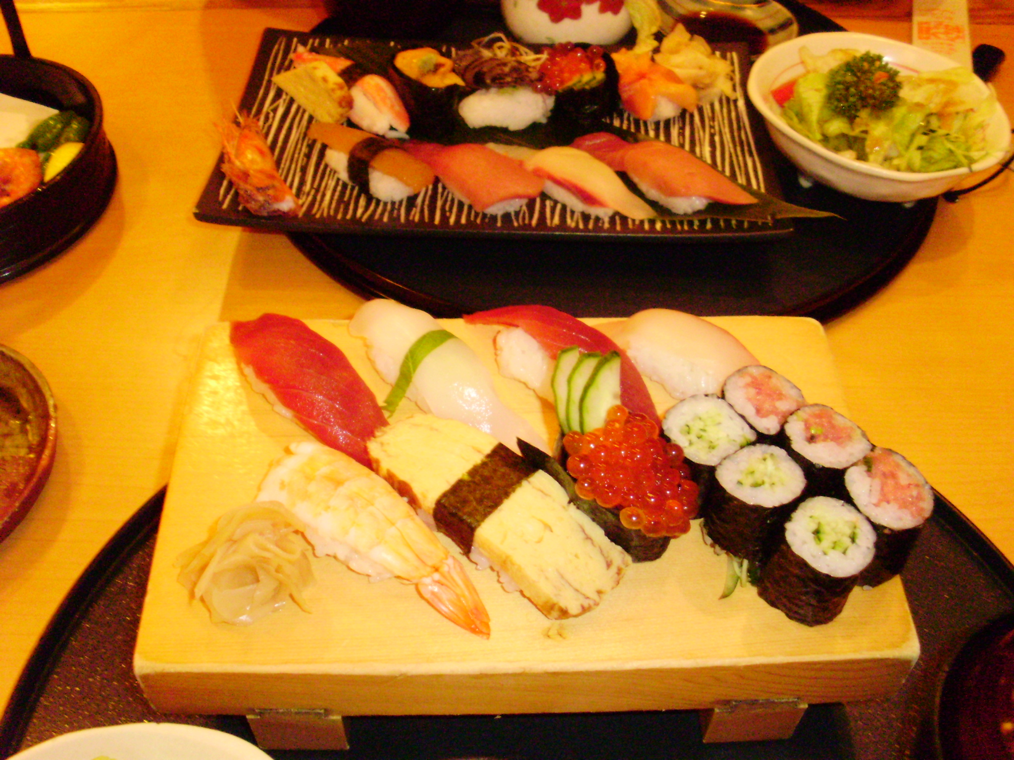 This is Famous Japanese food called Sushi. This is actually raw sea food including Fish, Shrimps with rice and other sea food. I took this picture when i was in Japan on my official KOMATSU company tour in May-Jun 2008. This was my farewell dinner party at Japan.